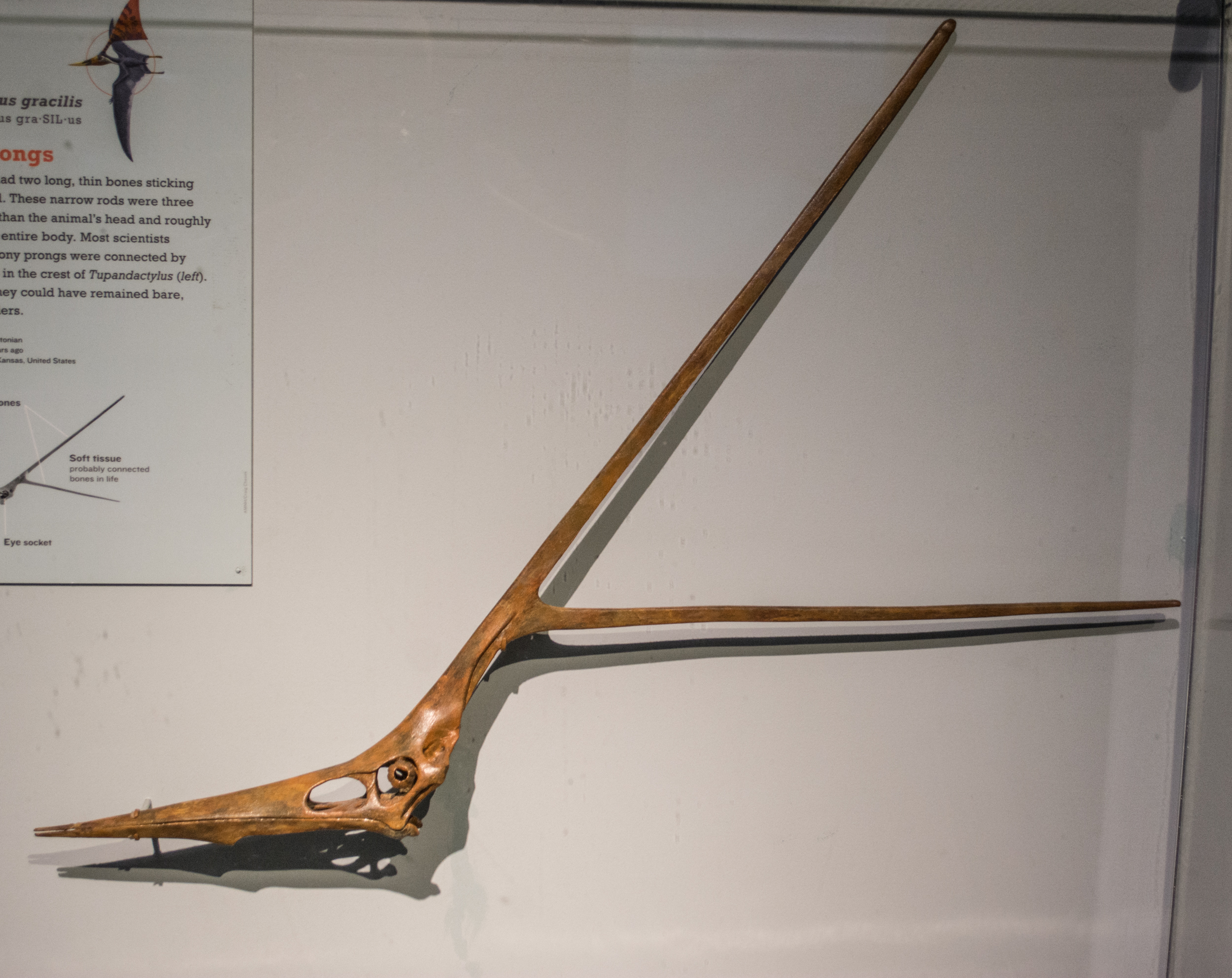 Nyctosaurus gracilis skull - Pterosaurs Flight in the Age of Dinosaurs